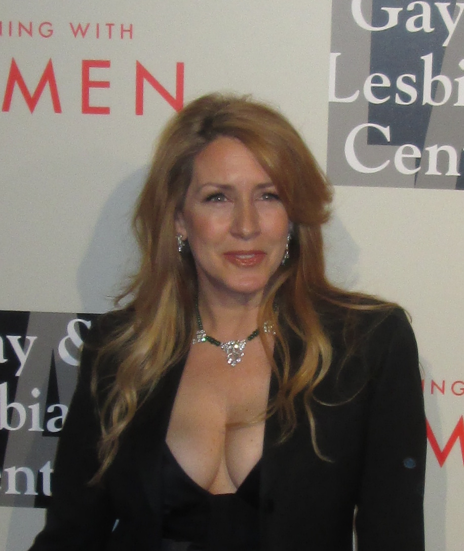 Actress Joely Fisher at the 2014 "An Evening With Women" Benefiting L.A. Gay & Lesbian Center